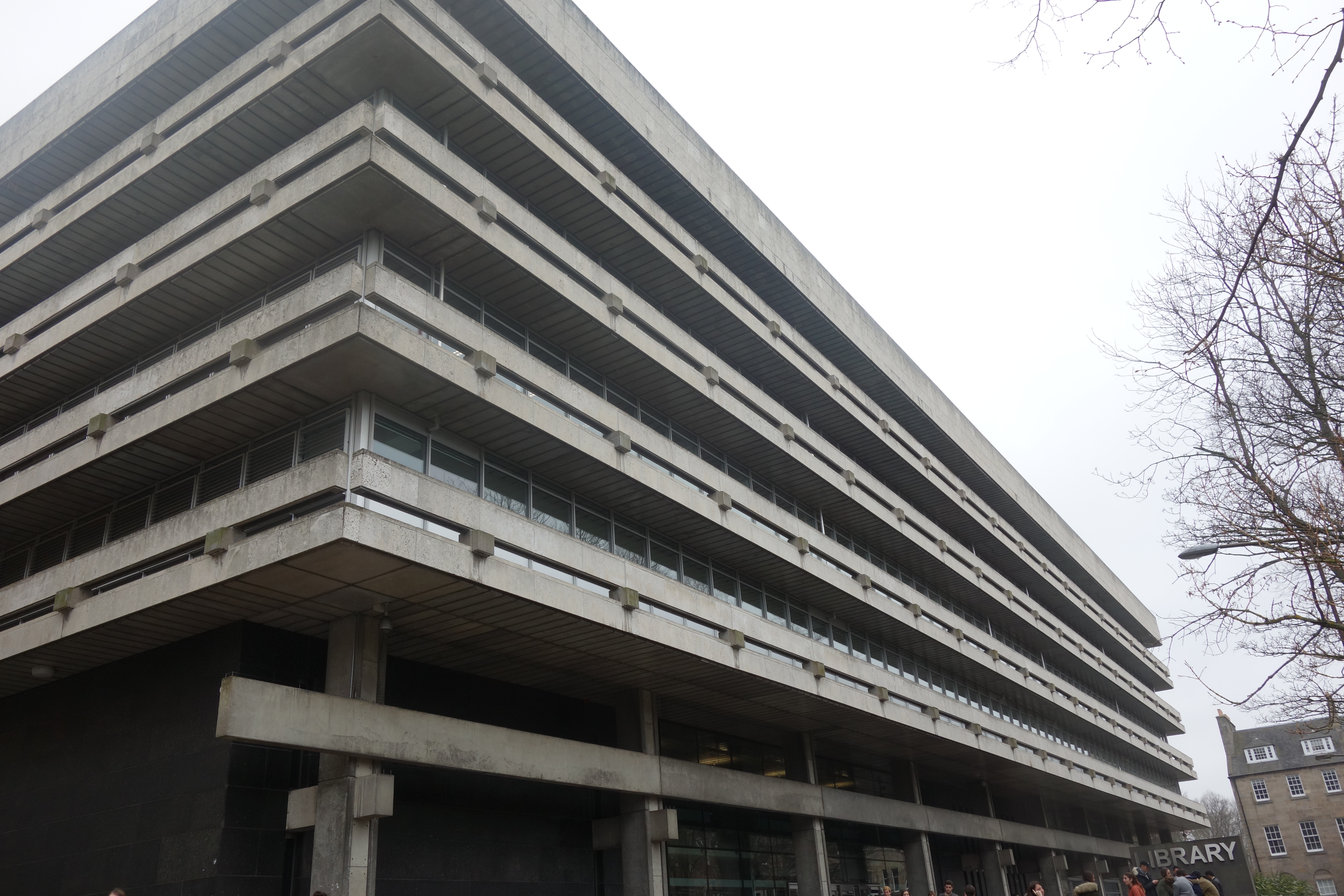 Edinburgh University Library (2017)